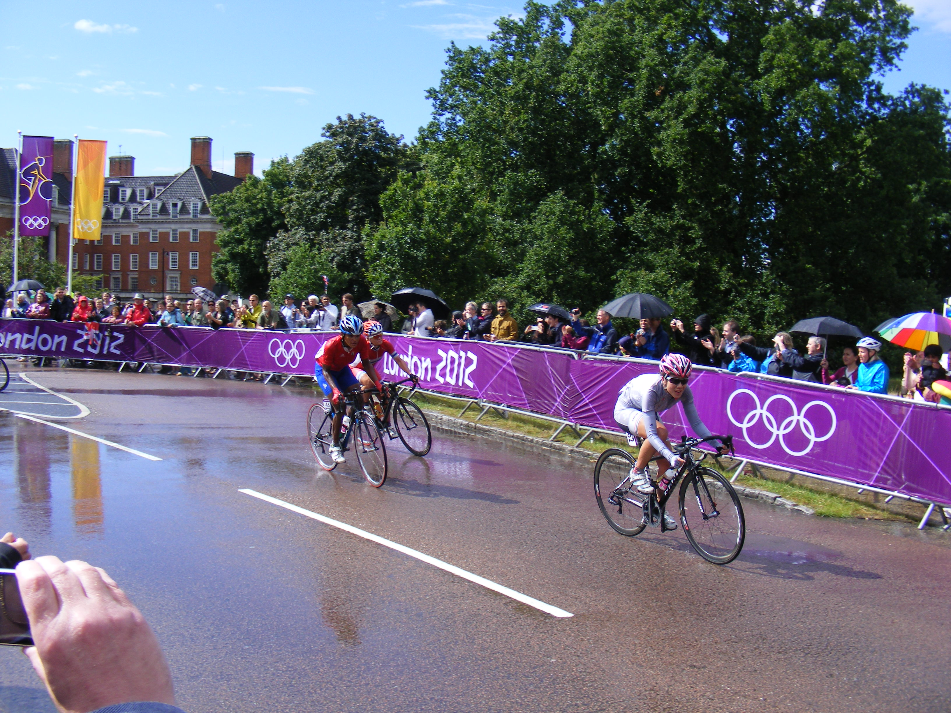 Richmond Hill - women's olympic road race